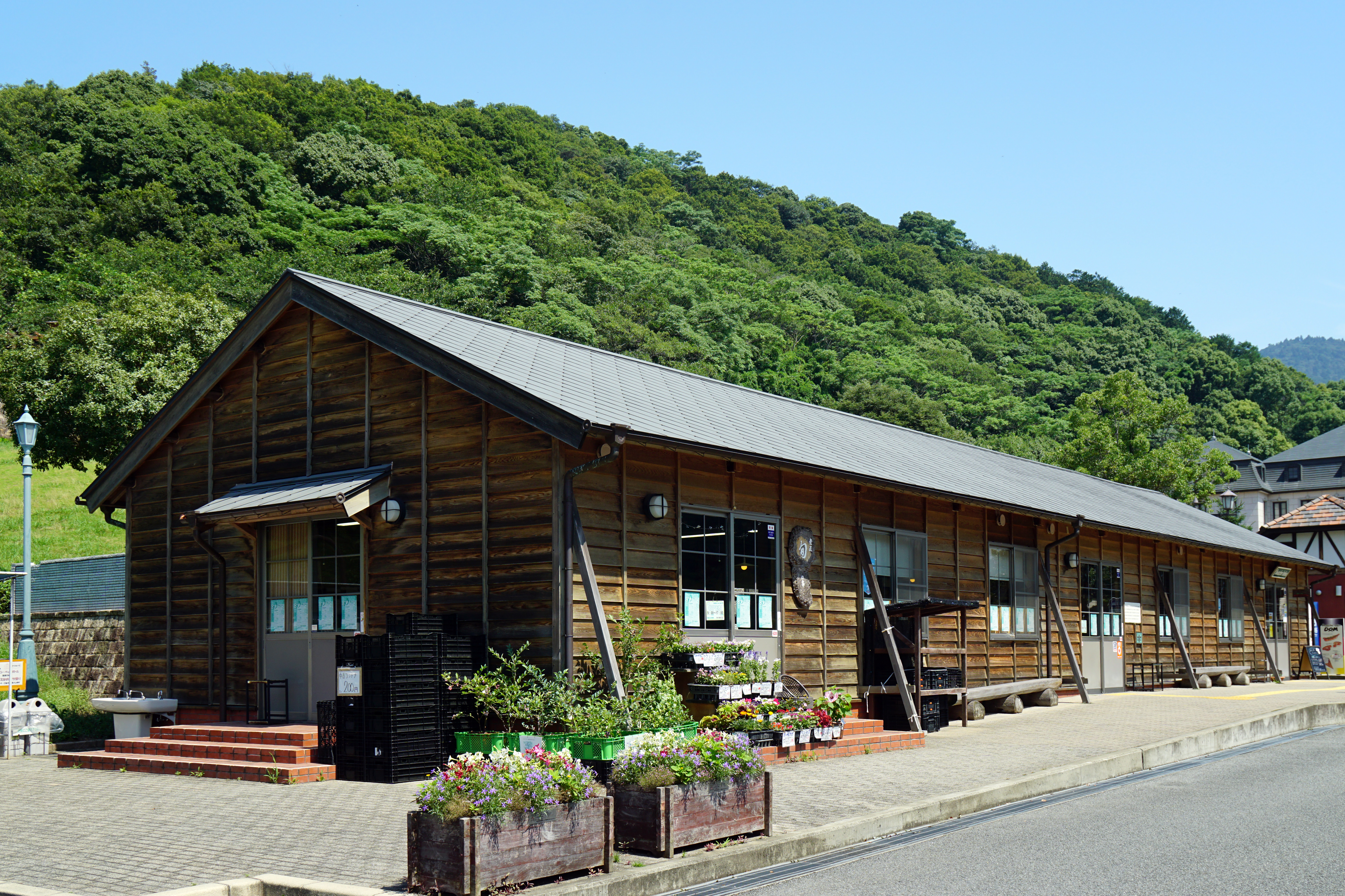 Michinoeki Daiku no sato in Naruto, Tokushima prefecture, Japan.